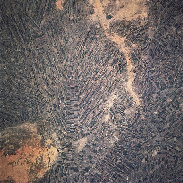 Sudan Gezira Plain 1997.jpg, contrast enhanced